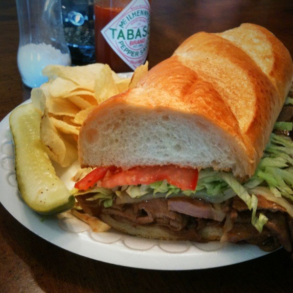 Posted from Twitter